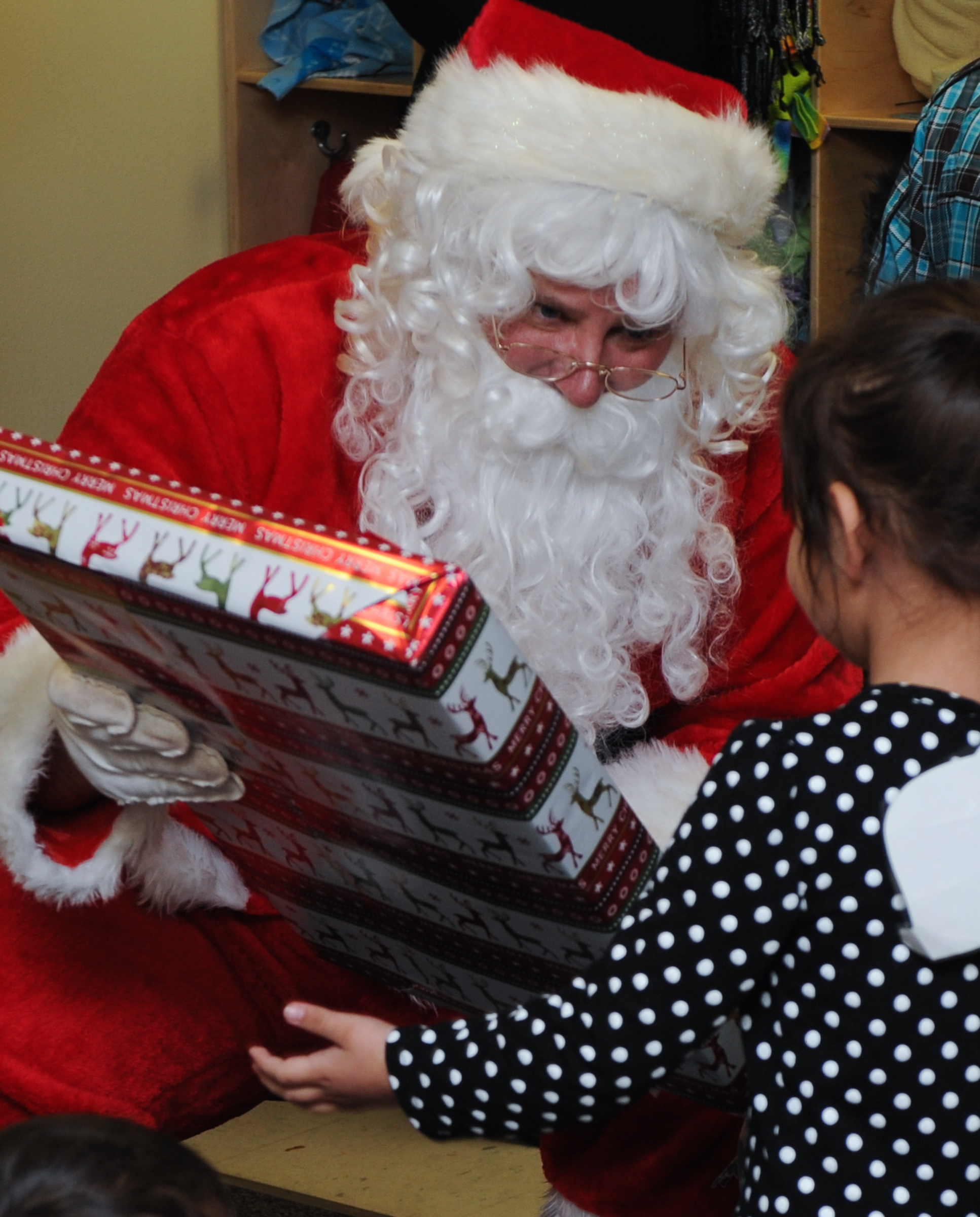 Santa Claus teamed up with more than 20 volunteers from Ellsworth Air Force Base, S.D., to distribute gifts to children enrolled in the Youth & Family Services Child Care program in Rapid City, S.D., Dec. 19, 2013. This is the seventh year the 28th Operations Group has conducted the Angel Tree program. (U.S. Air Force photo by Senior Airman Anania Tekurio/Released)